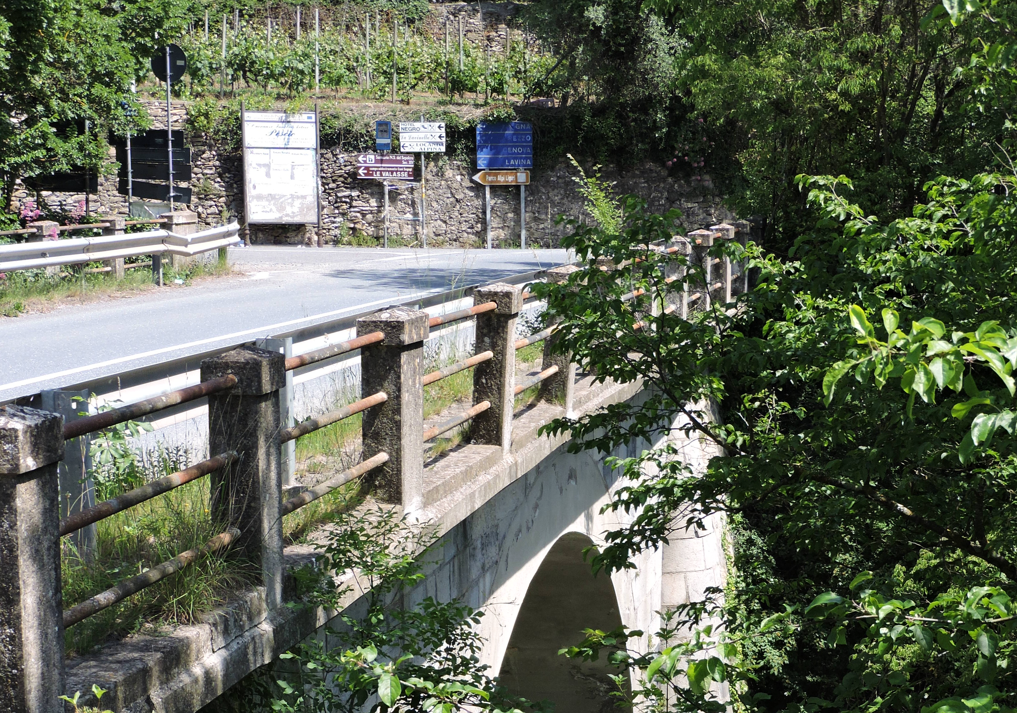 Bridge of statale della Valle Arroscia crossing Giara di Rezzo (Liguria, Italy)